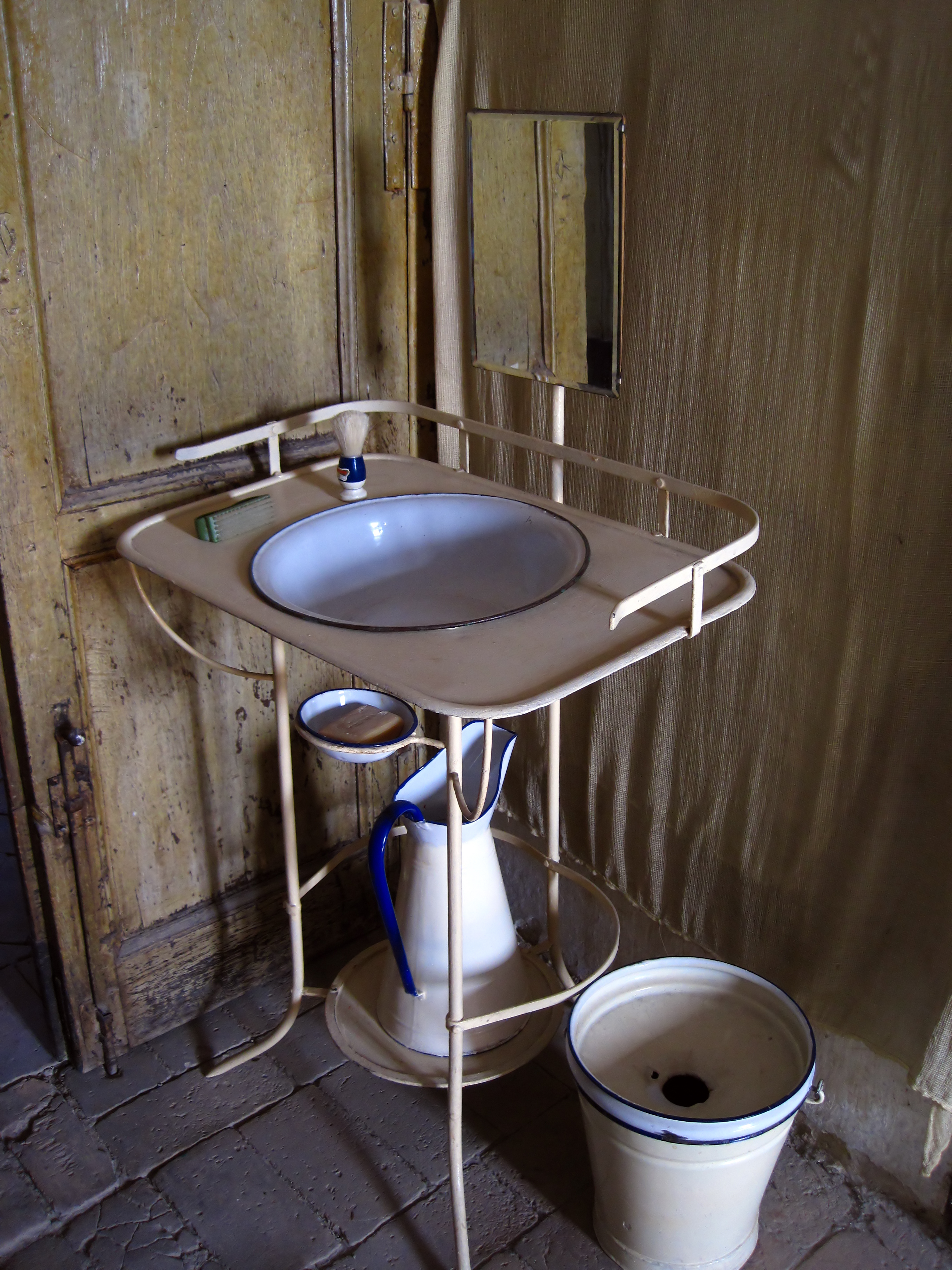 Lavabo from palazzo Lauria in San Mauro Forte - Italy. An efficient piece of design from the 1930s, with brush for shaving cream intact. Next to it is the night bucket, the predecessor to the ensuite bathroom.